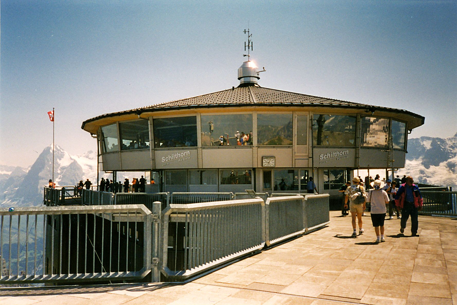 The restaurant Piz Gloria on the summit of Schilthorn in Switzerland. July 1998.